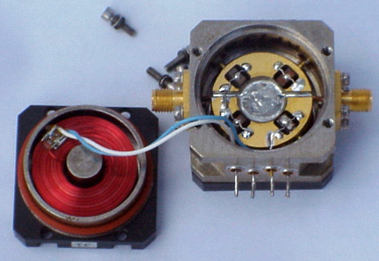 open YIG filter